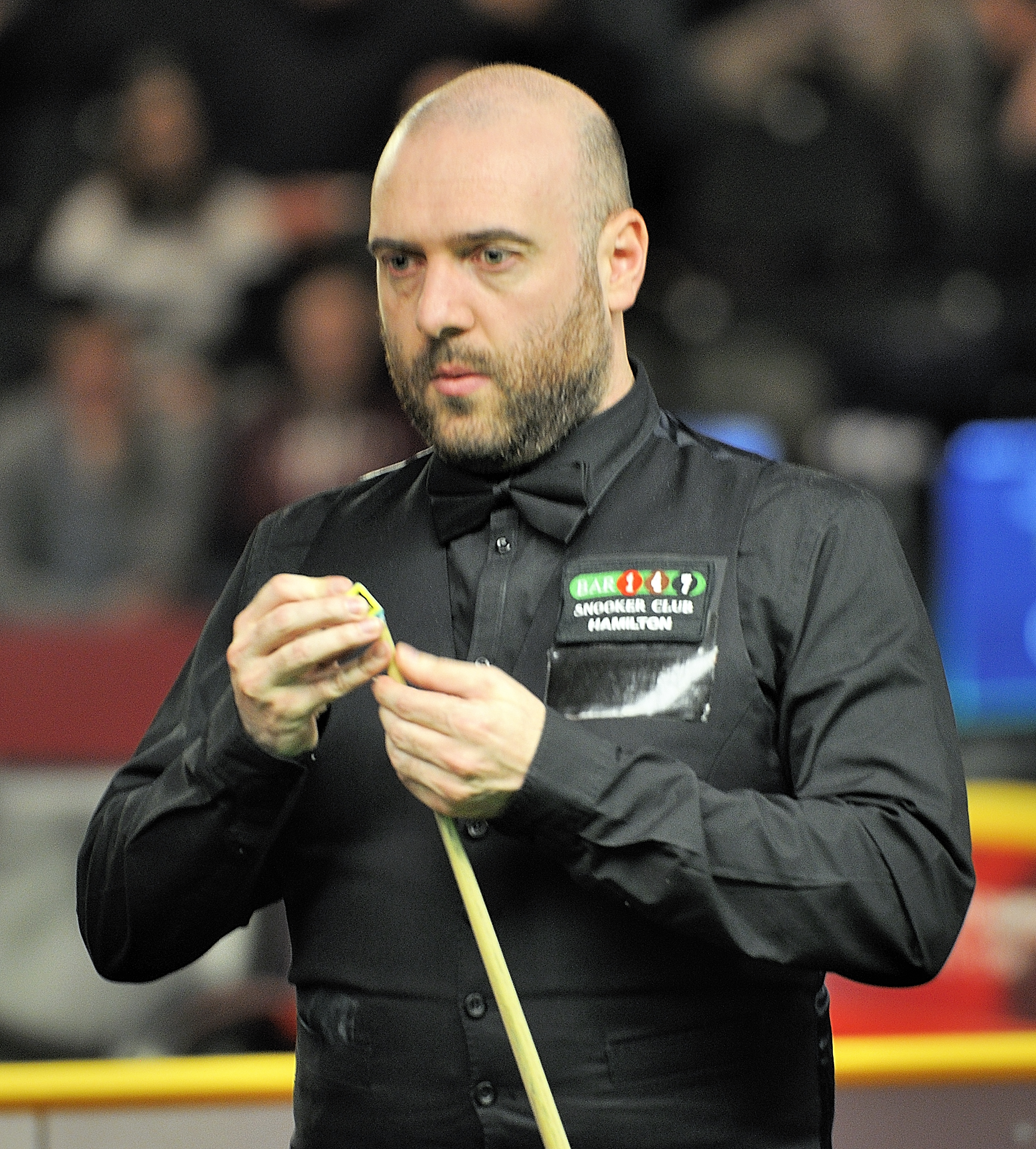 Picture taken in Berlin during the Snooker German Masters in 2014. Jamie Burnett.